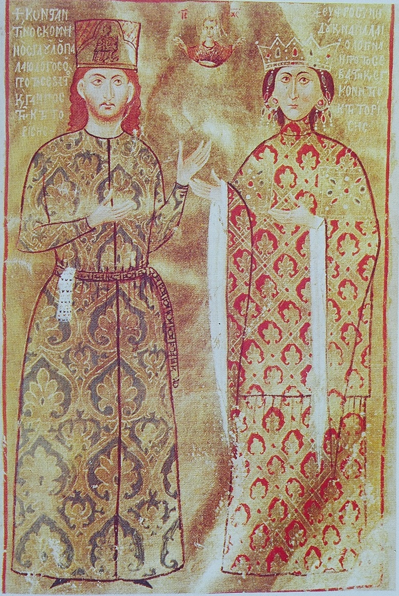 Protosebastos Konstantinos Raoul Palaiologos and his wife Euphrosyne Doukaina Palaiologina, а granddaughter of Theodora Palaiologina. Typikon of Theodora Synadene for the Convent of the Mother of God Bebaia Elpis in Constantinople, Bodleian Library